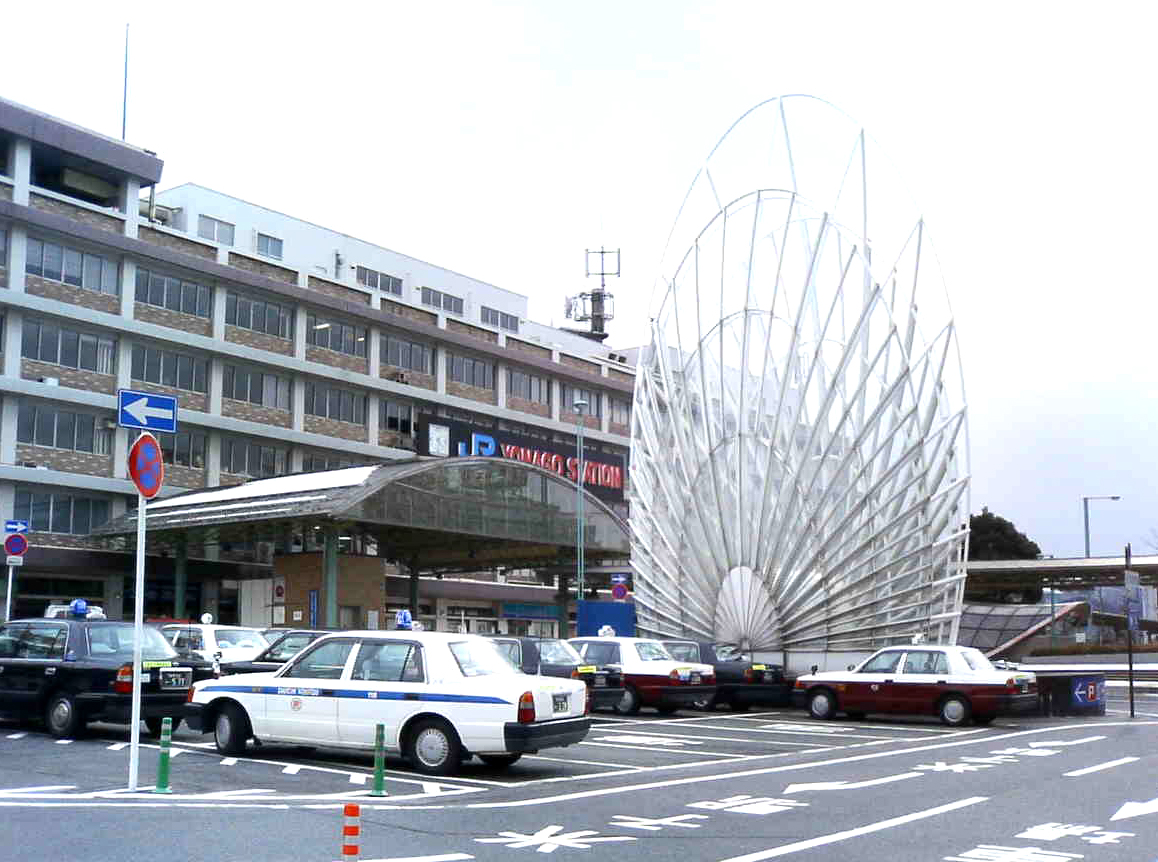 YonagoStation and YONAGOKKOGASSYOZO